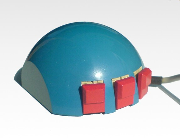 Photo of mouse desgined by André Guignard. Done by myself to replace the non-free version that tend to appear on wp.